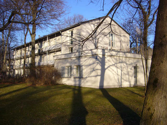 Student hostel Biederstein